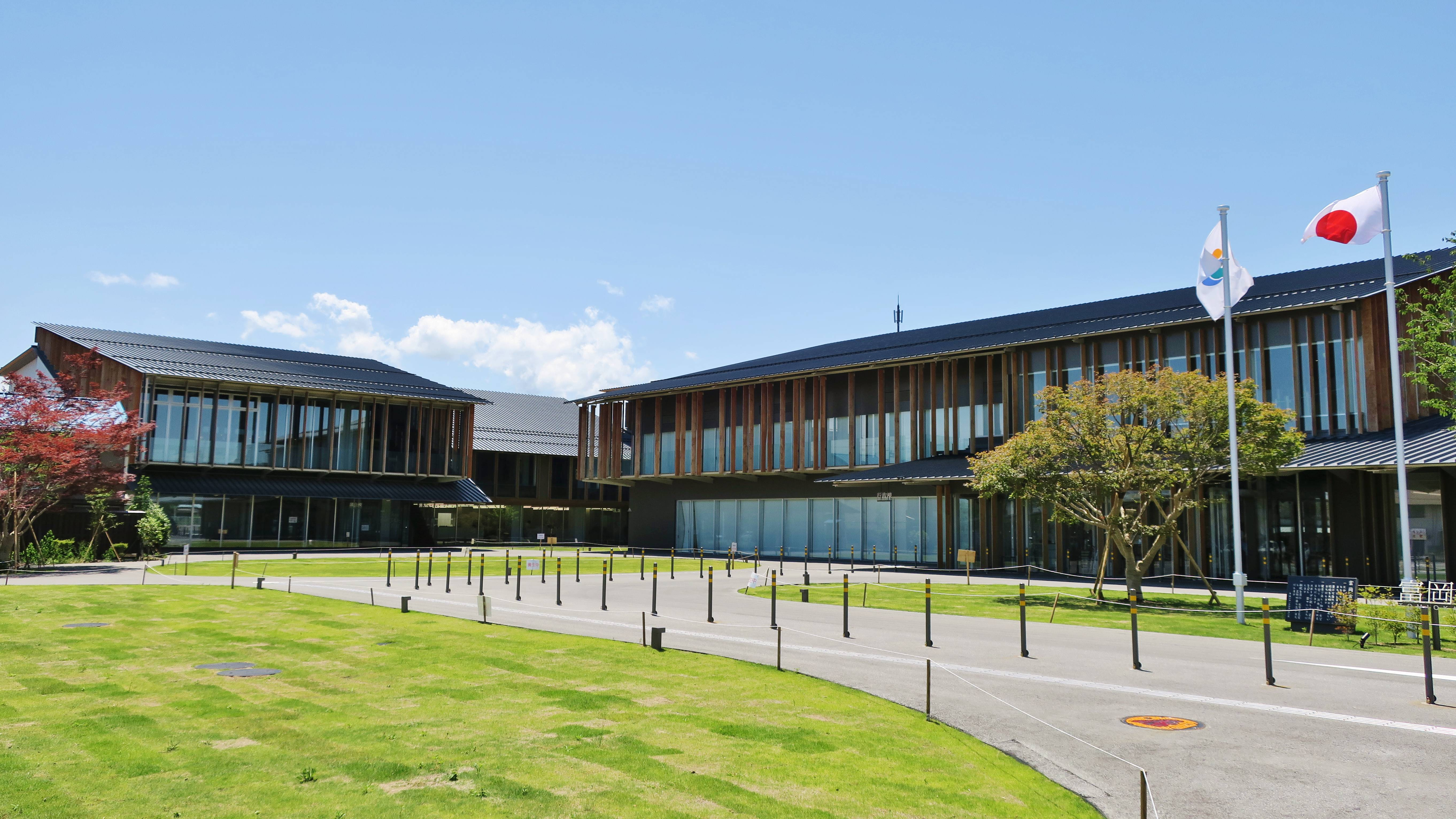 Tomioka city office.